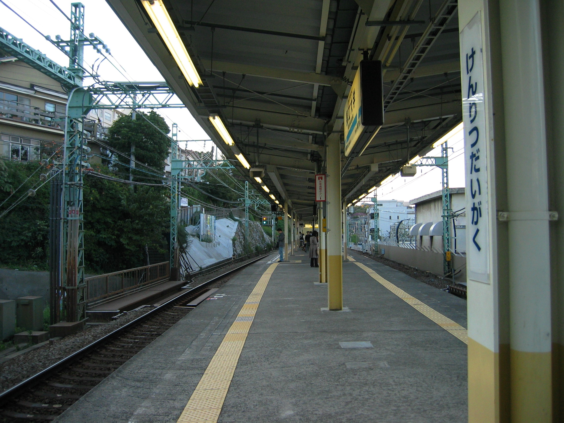 Keikyu Main Line, Kenritsudaigaku Station (Yokosuka, Kanagawa, Japan)